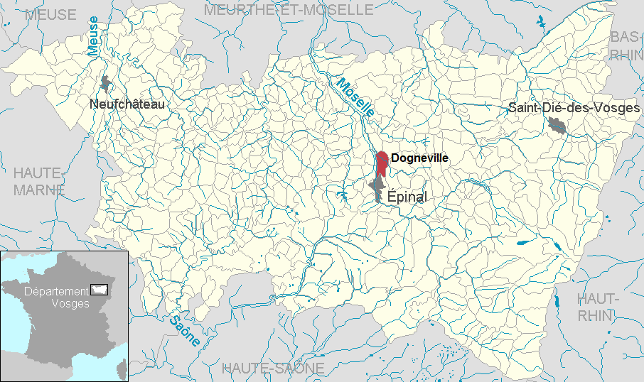 Dogneville in the department of Vosges, Lorraine, France